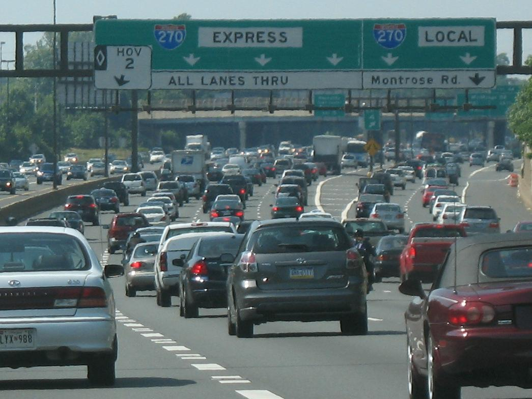 Interstate 270 west Washington DC, westbound. A HOV 2+ lanes is located in the left side and the entrance to the local-express lanes is at the right side of the main express lanes.